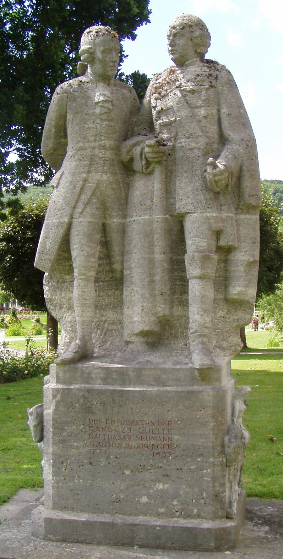 Fried Heuler: Statue of Georg Anton Boxberger (1679-1765, left) and Balthasar Neumann (right); built in 1937; Location: Rosengarten, Bad Kissingen.